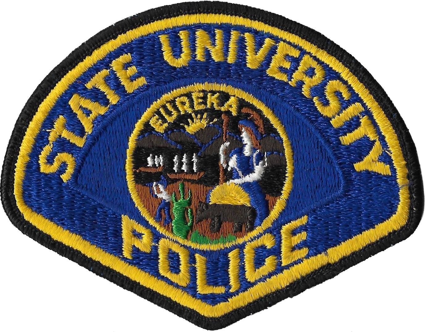 Former patch of the California State University Police, used during the early 1980s.